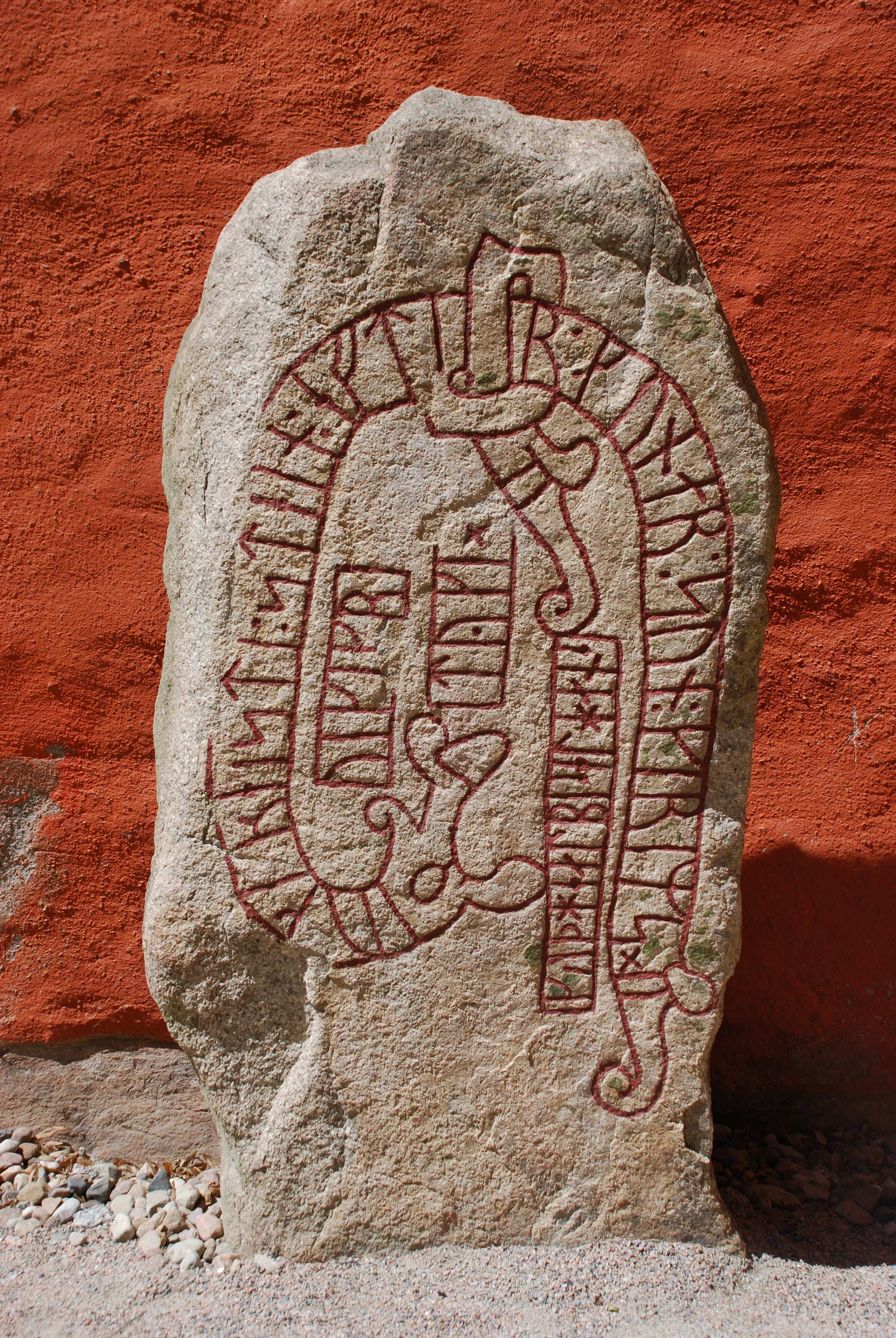 Runestone Sm10 behind Växjö cathedral. Translation:"Tyke - Tyke Viking - erected this stone in memory of Gunnar, Grim's son. May God help his soul."